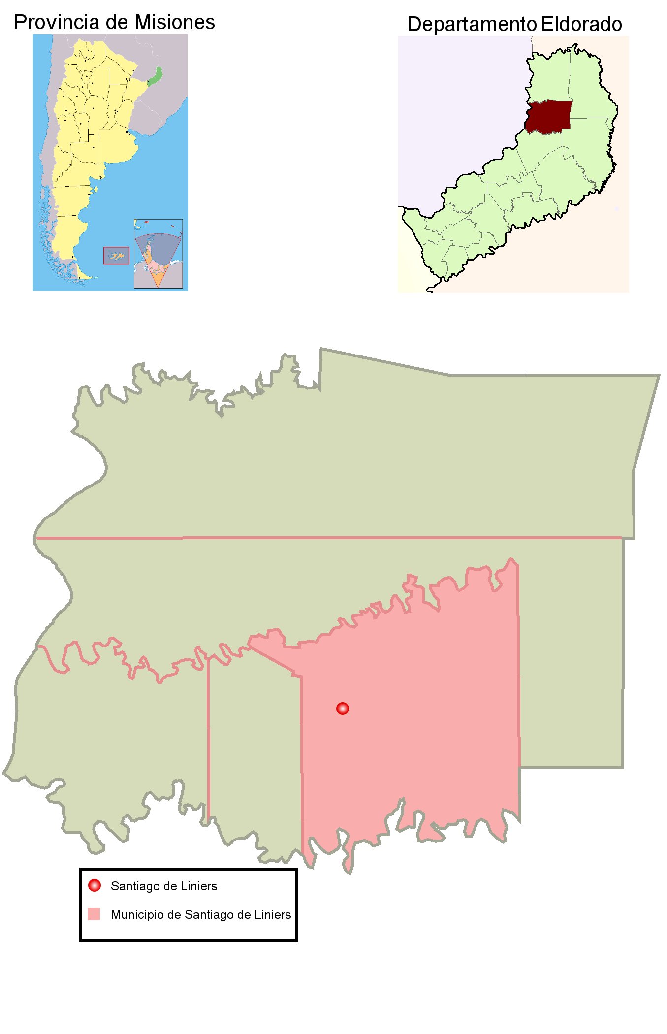 A map showing municipio of Santiago de Liniers in Eldorado departament, Misiones province, Argentina. Also shows Santiago de Liniers town location. Created with GIMP.